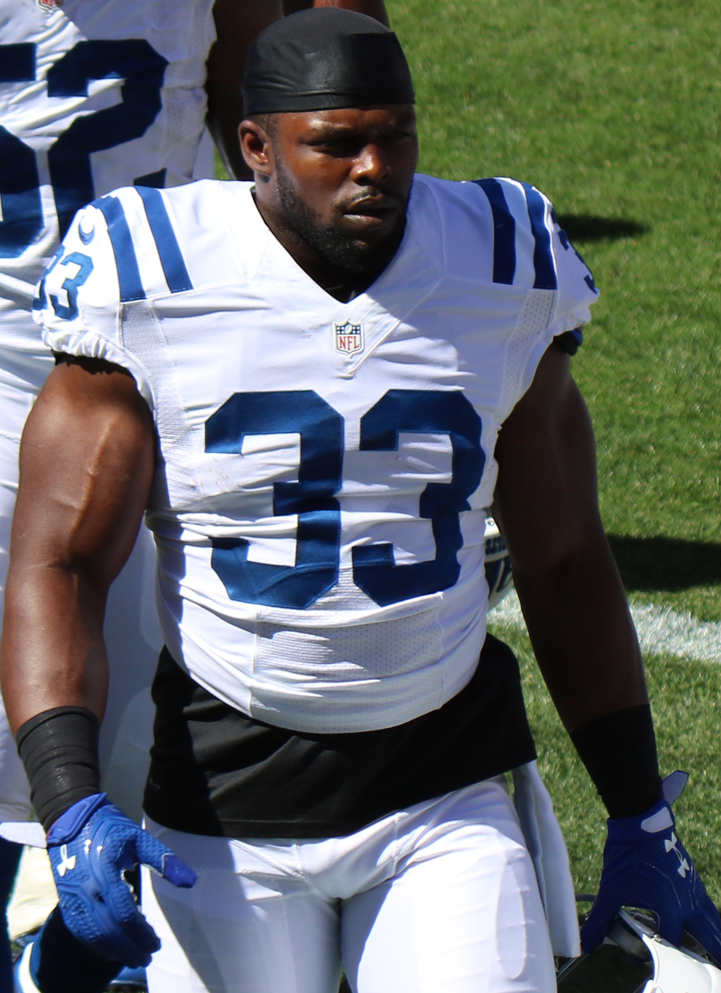 Robert Turbin, a player on the National Football League.